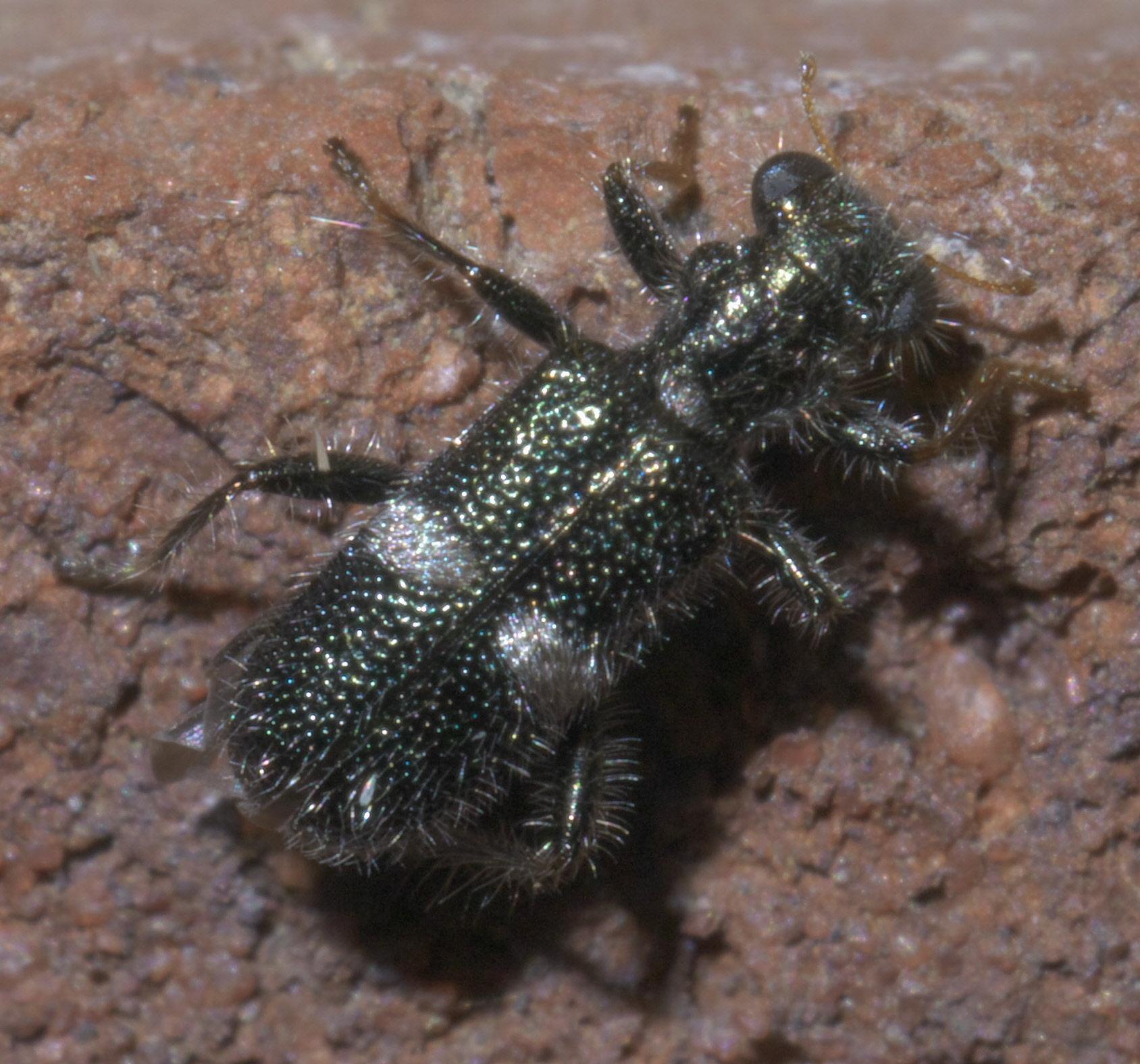 Phyllobaenus unifasciatus, Family: Checkered Beetles, Size: 4.8 mm, ID Confidence: 88